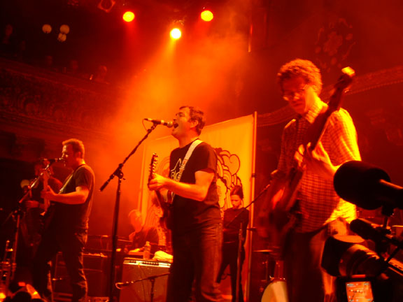 An old photo. I miss this band.